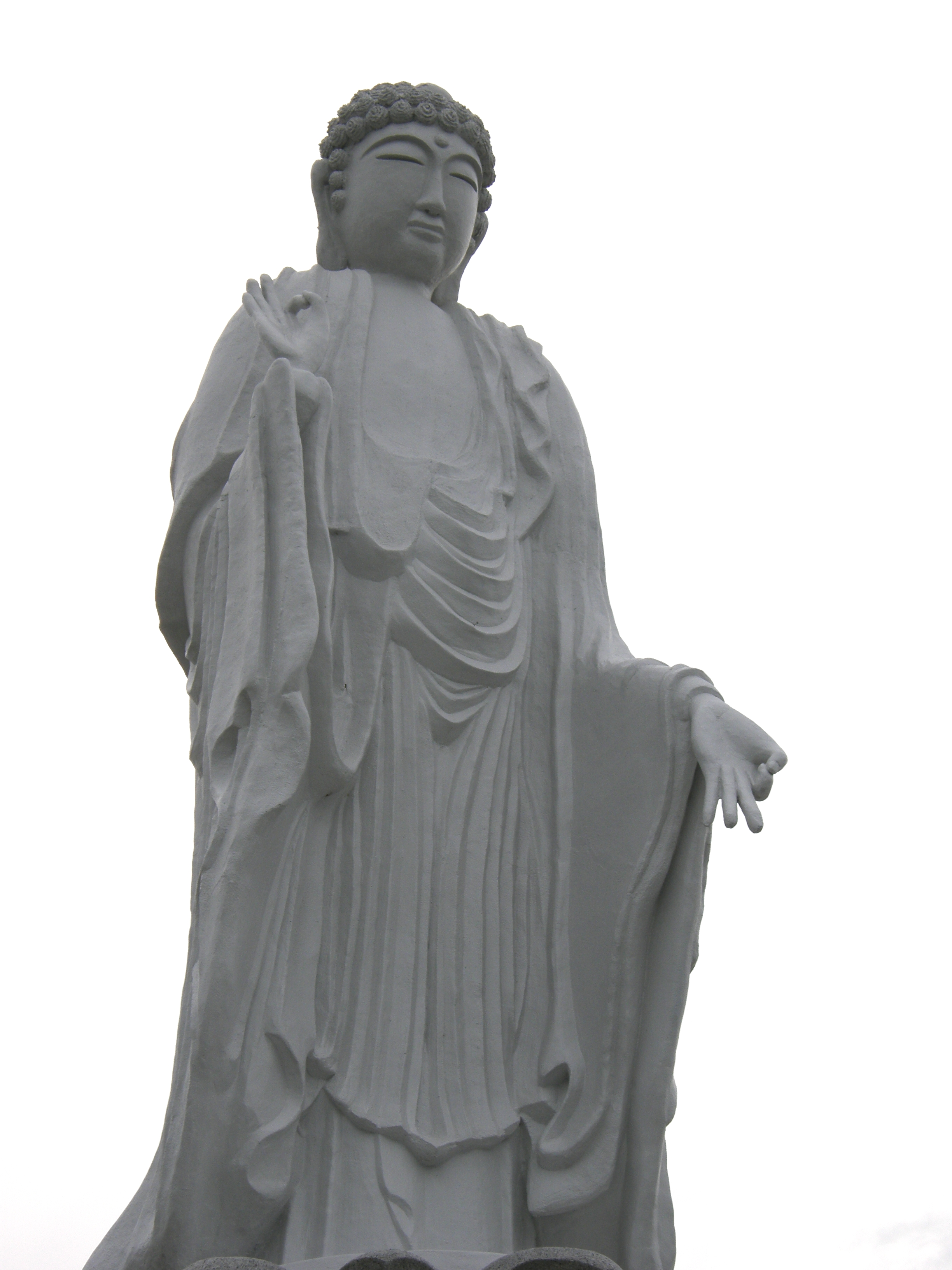 Yobuko Daibutsu in Katatsu city, Saga pref Japan